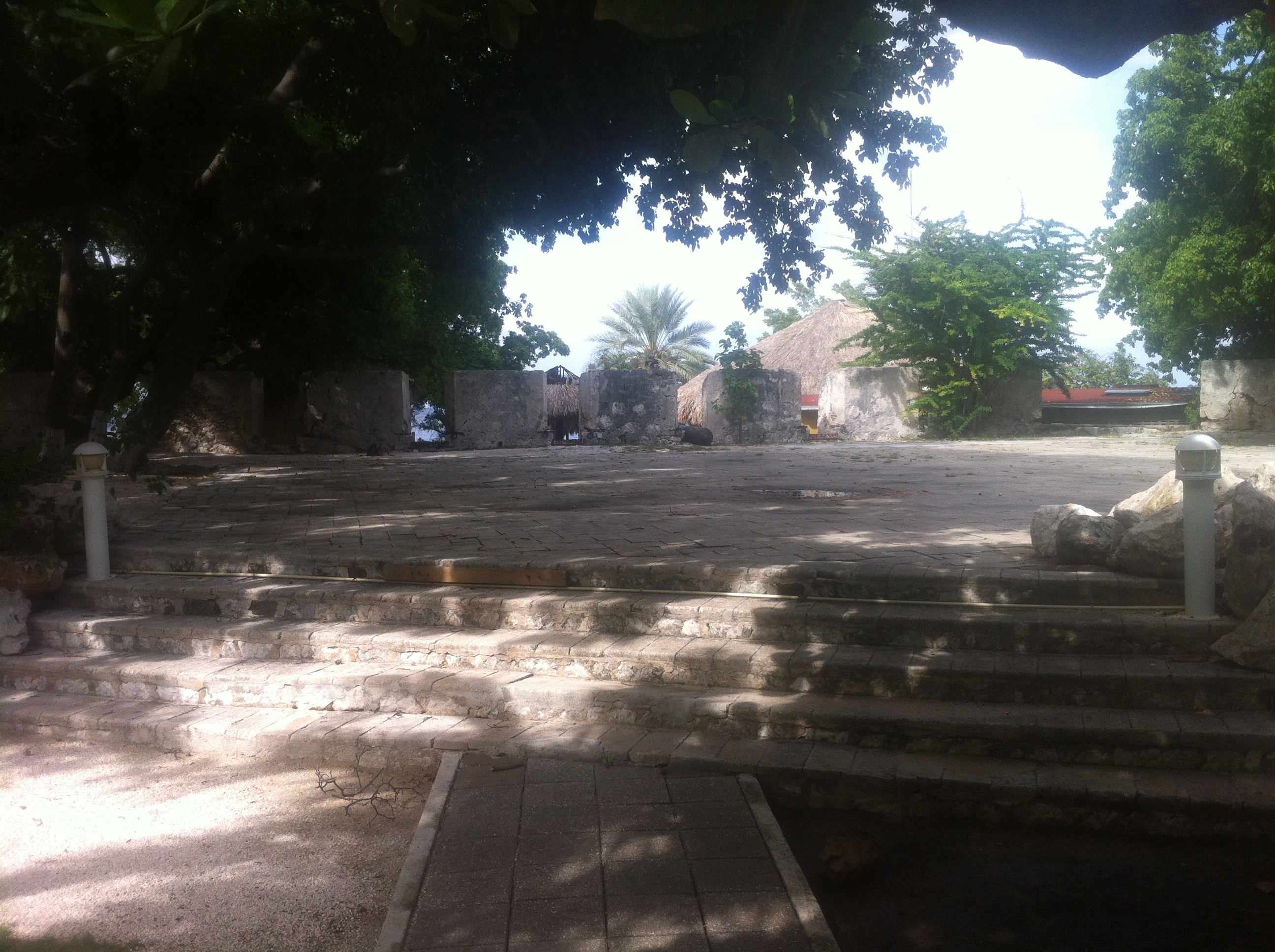 Piscadera Fort